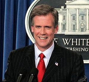 Tony Snow photo, cropped and some sharpening